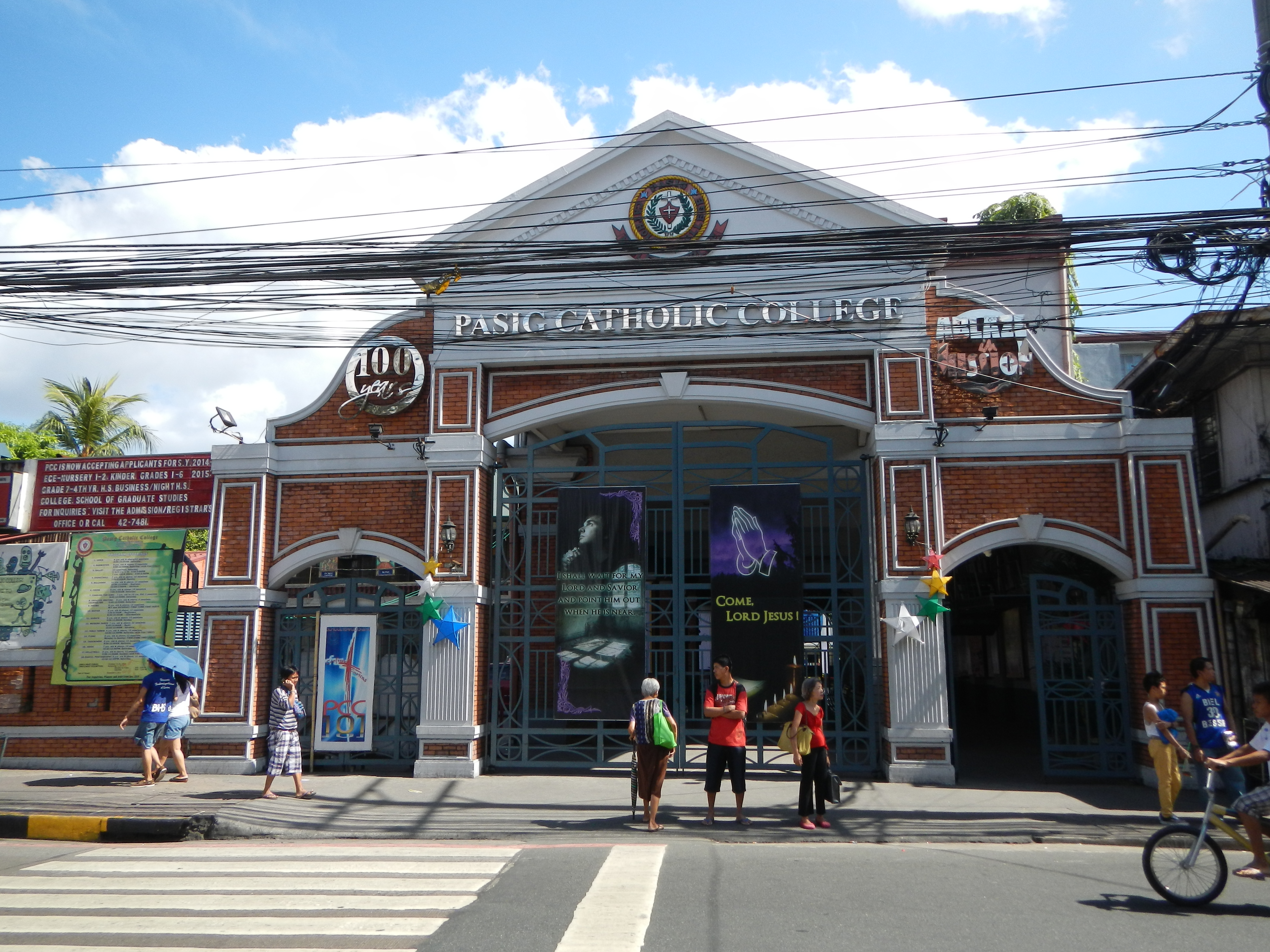 Upload Wizard photos of Pasig City [1] - Colegio del Buen Consejo, Colegio de Madres Agustinas Marker 1740, Barangay Malinao Welcome Monument, and 1913 Pasig Catholic College[2].